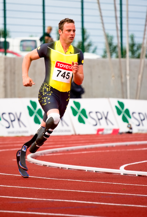 South African Paralympic runner Oscar Pistorius (born 22 November 1986), taking part in the Landsmót ungmennafélags Íslands in Kópavogur, Iceland, the largest sporting event in Iceland which is held every three years.